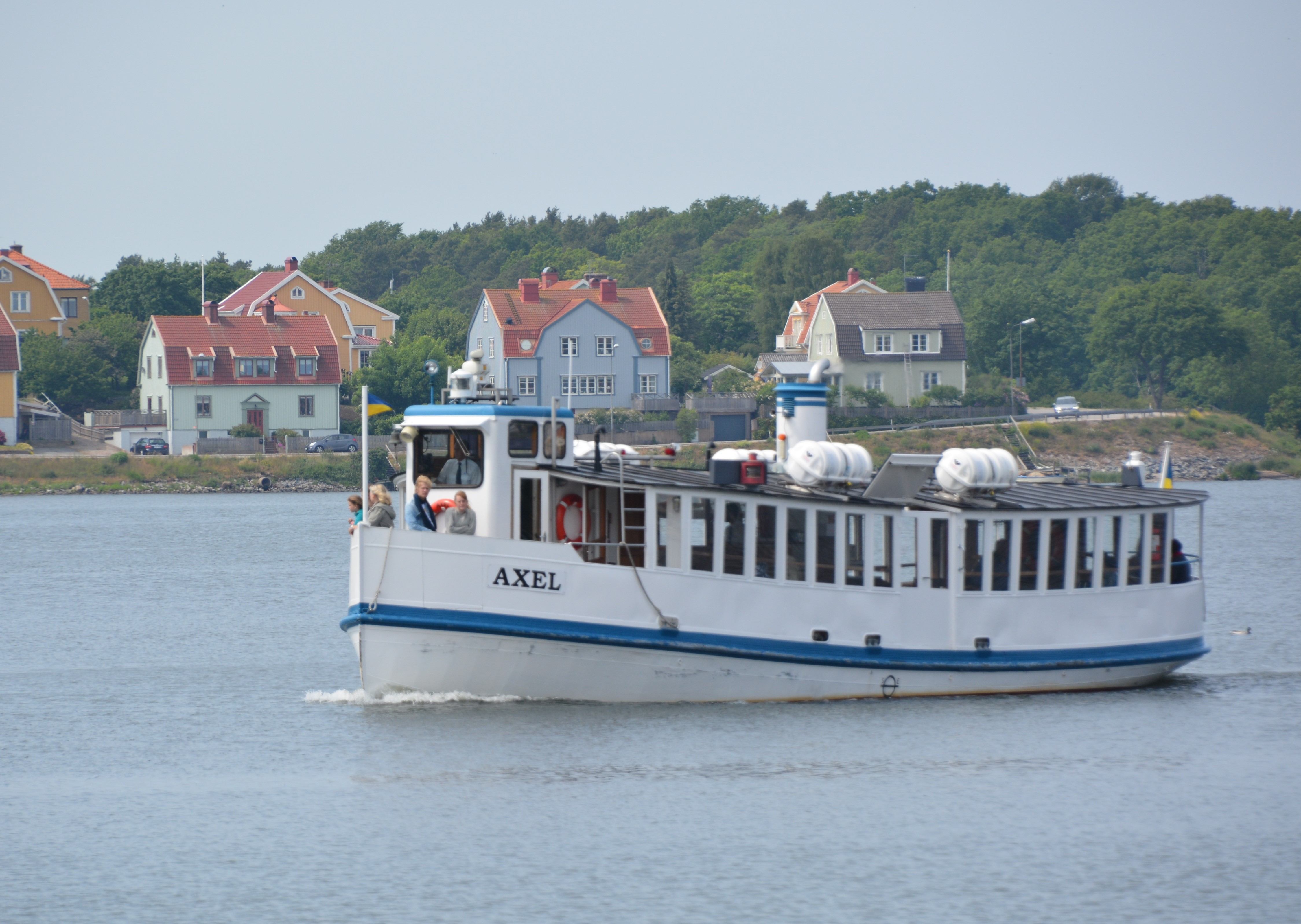 M/F Axel i hamninloppet till Karlskrona